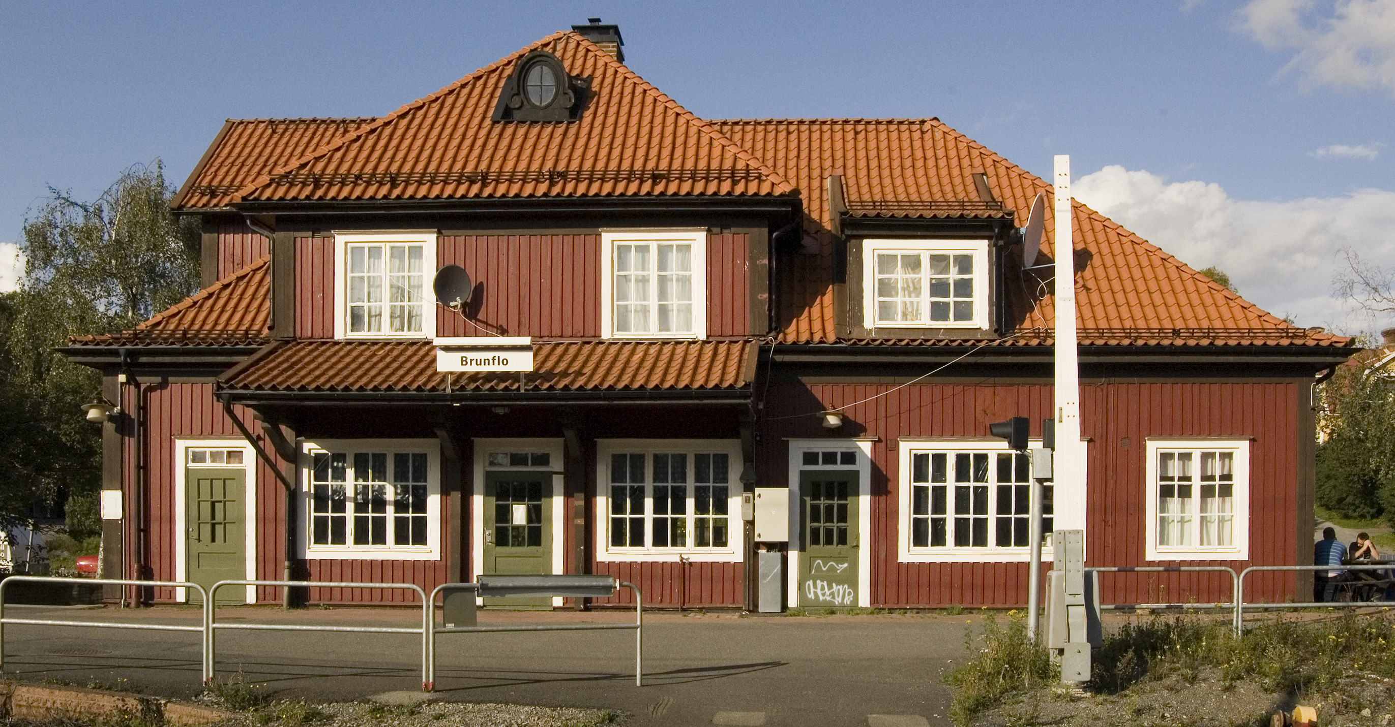 Brunflo railway station, Sweden